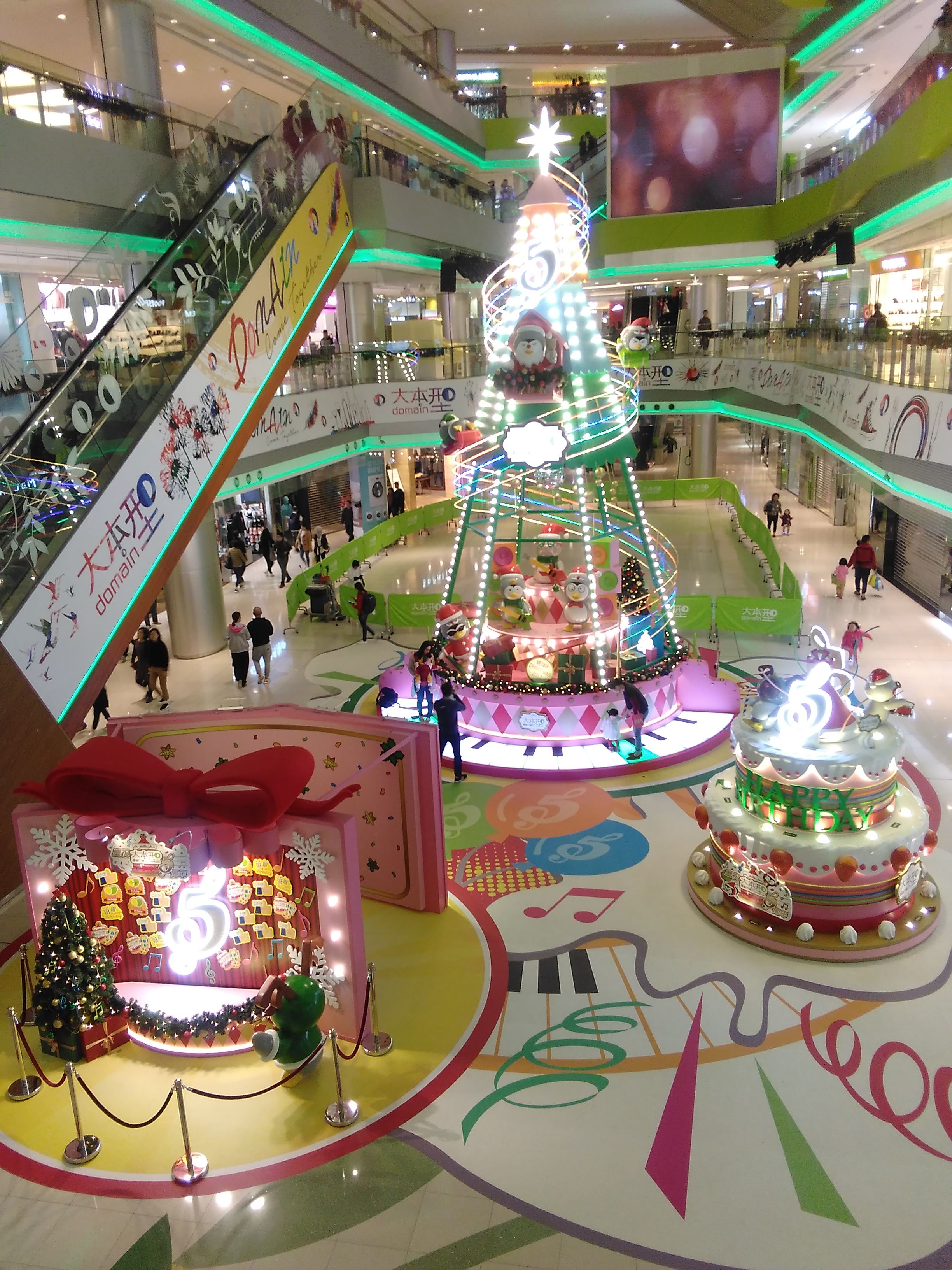 Domain (Hong Kong) Atrium and 5th anniversary celebration event